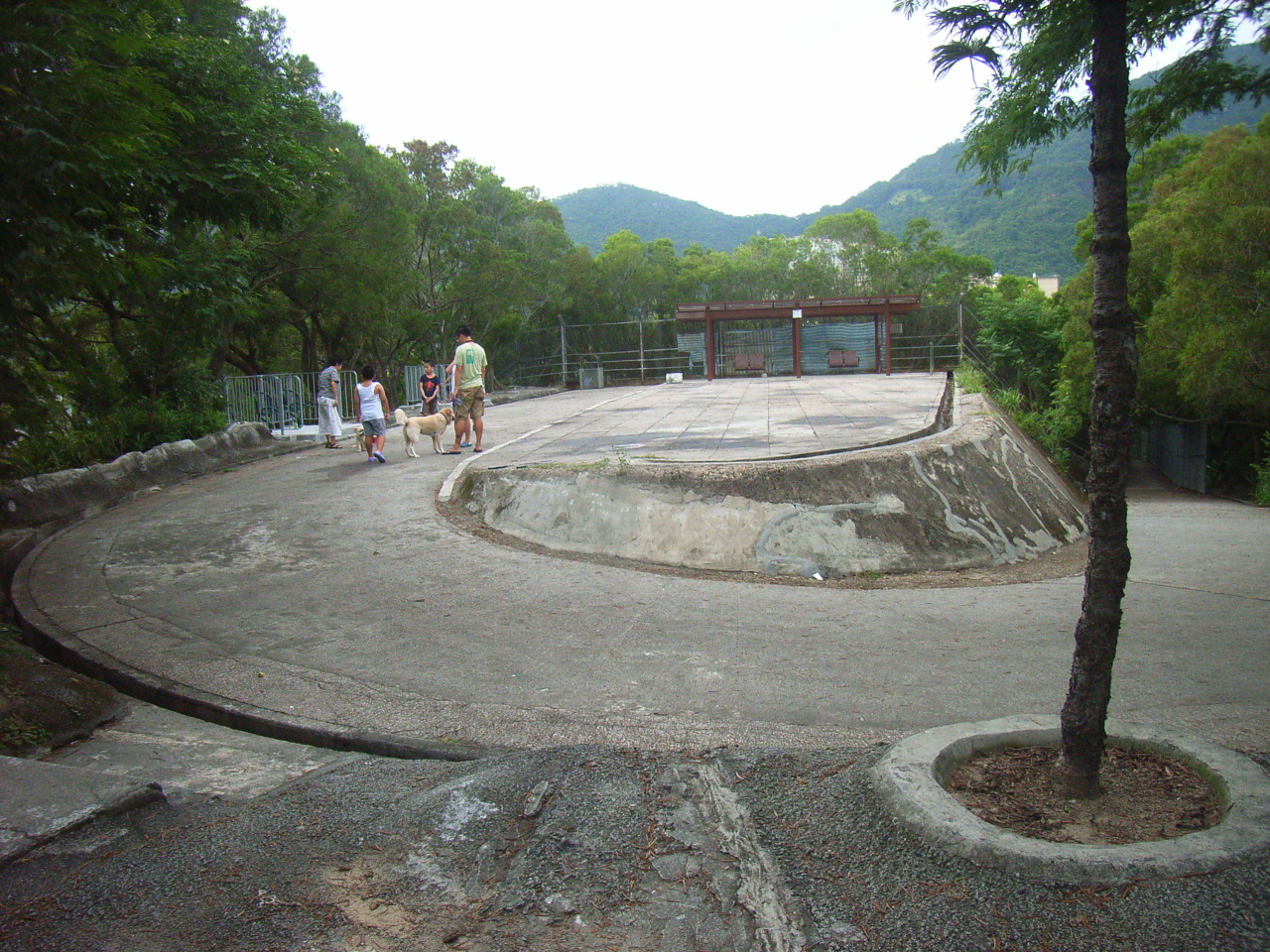 深水埗區石硤尾 嘉頓山